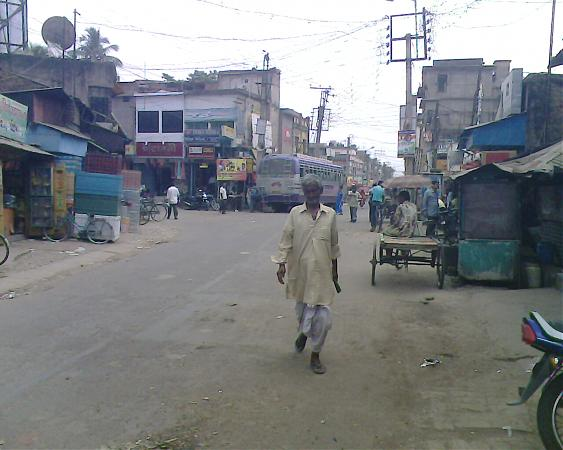 Bagula Bus Stand